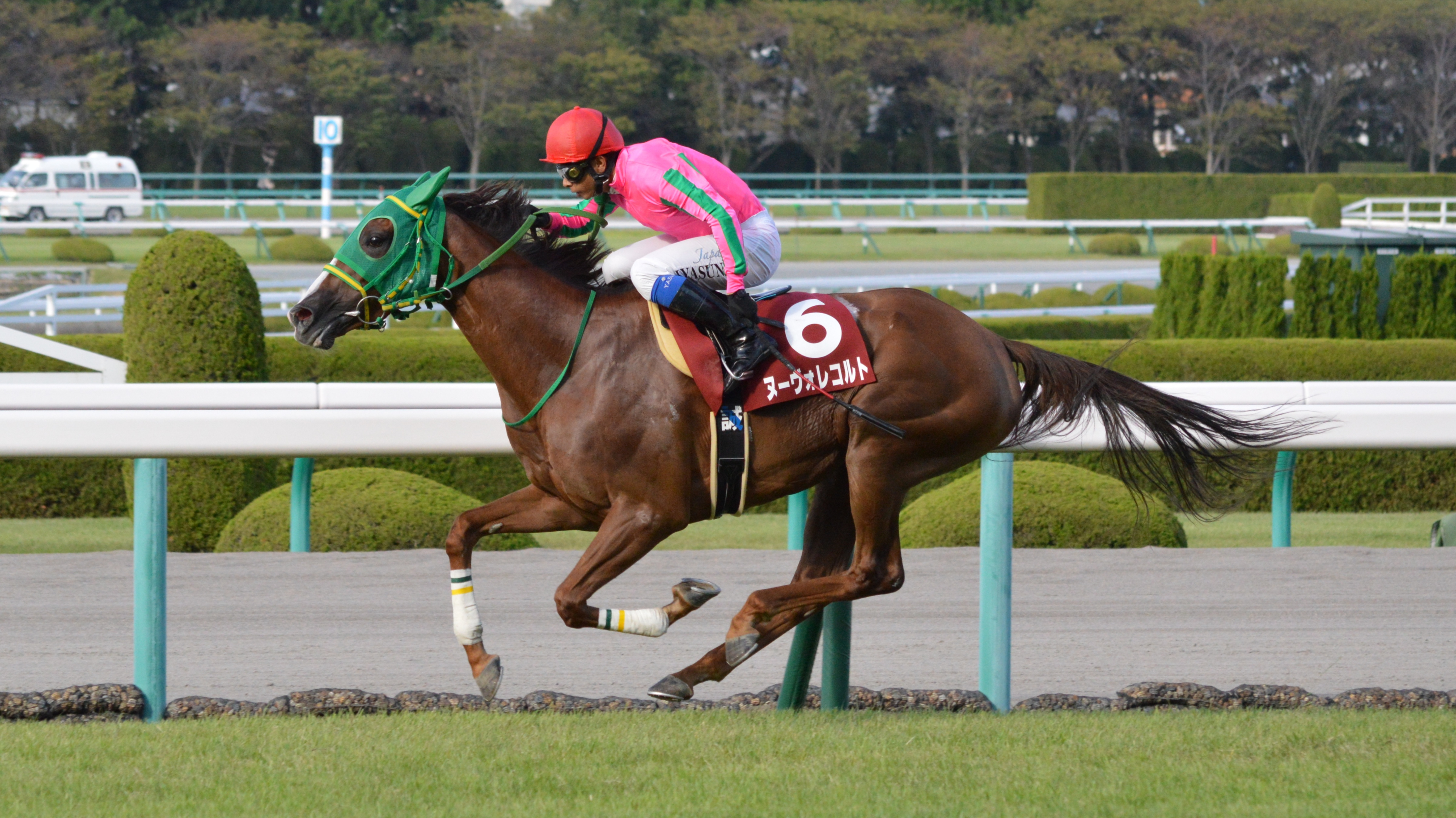 Japanese race horse Nuovo Record at Hanshin racecourse.